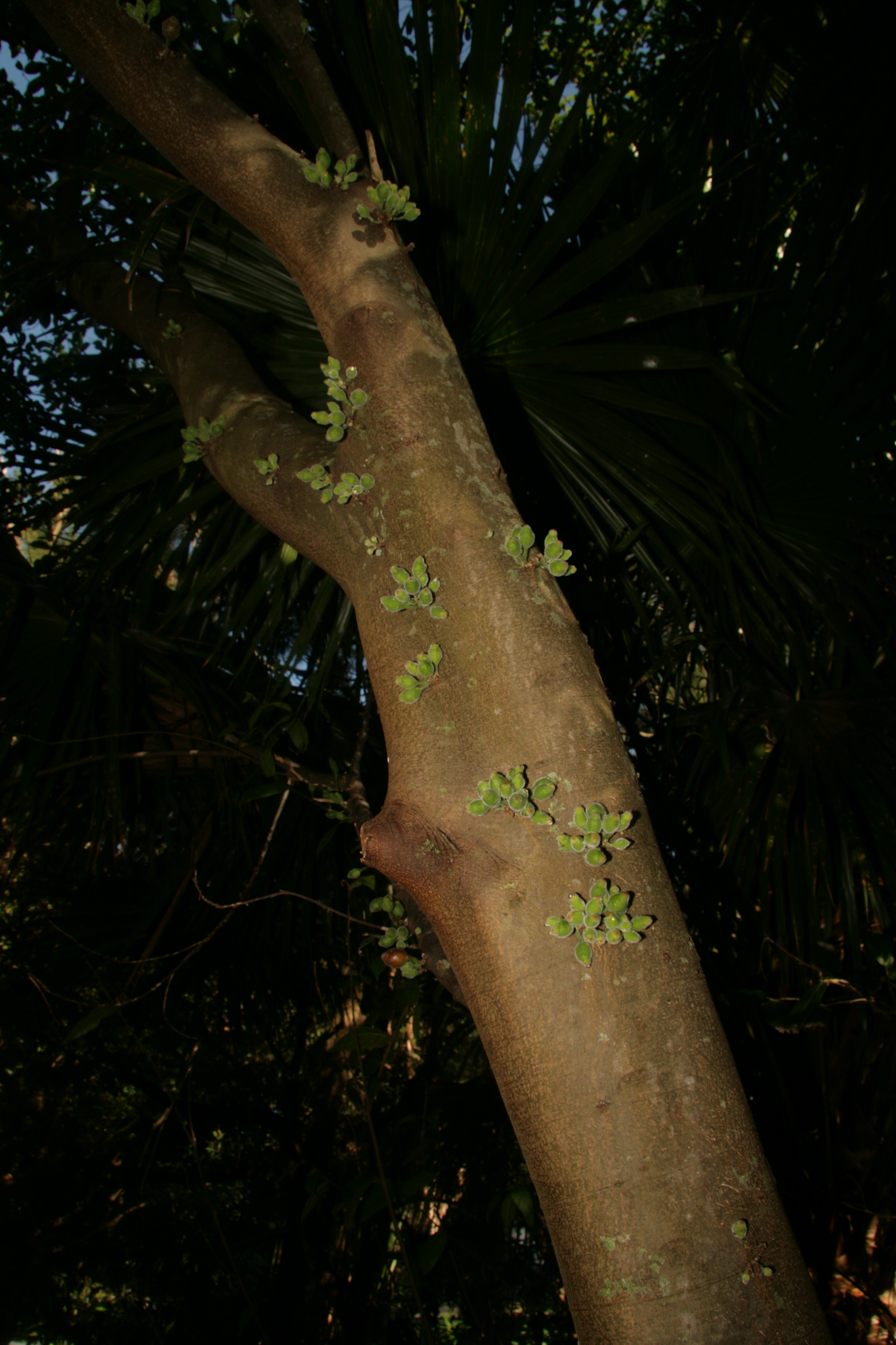 ficus coronata( trunk) Royal Botanic Gardens, Sydney